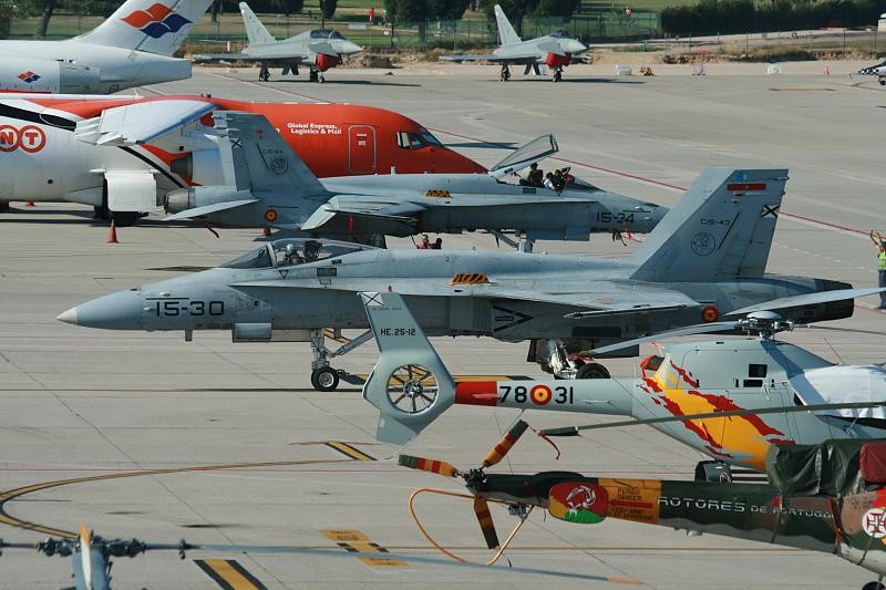 Caza McDonnell Douglas EF-18A Hornet (conocido en España como C-15) de la Fuerza Aérea Española (código 15-30, registro C-15-43), perteneciente al Ala 15 con base en Zaragoza. En los timones de cola lleva una franja roja con la estrella de comandante. La decoración negra y amarilla de sus aletas laterales indica que es uno de los cinco F-18 españoles que participaron a finales de junio en la 'Tiger Meet' de la OTAN en Landivisau (Francia). Foto tomada en el Aeropuerto de Peinador (Vigo, Galicia, España) EF-18 in Vigo. Fighter McDonnell Douglas EF-18A Hornet (known in Spain as C-15) of the Spanish Air Force (code 15-30, I register C-15-43), belonging to the Wing 15 with base in Zaragoza. In the helms of tail it shows a red band with the commander's star. The black and yellow decoration of its lateral fins indicates that it is one of the five spanish F-18 that took part in the 'Tiger Meet' of the NATO at the end of June in Landivisau (France). Photo taken in the Peinador's Airport (Vigo, Galicia, Spain)